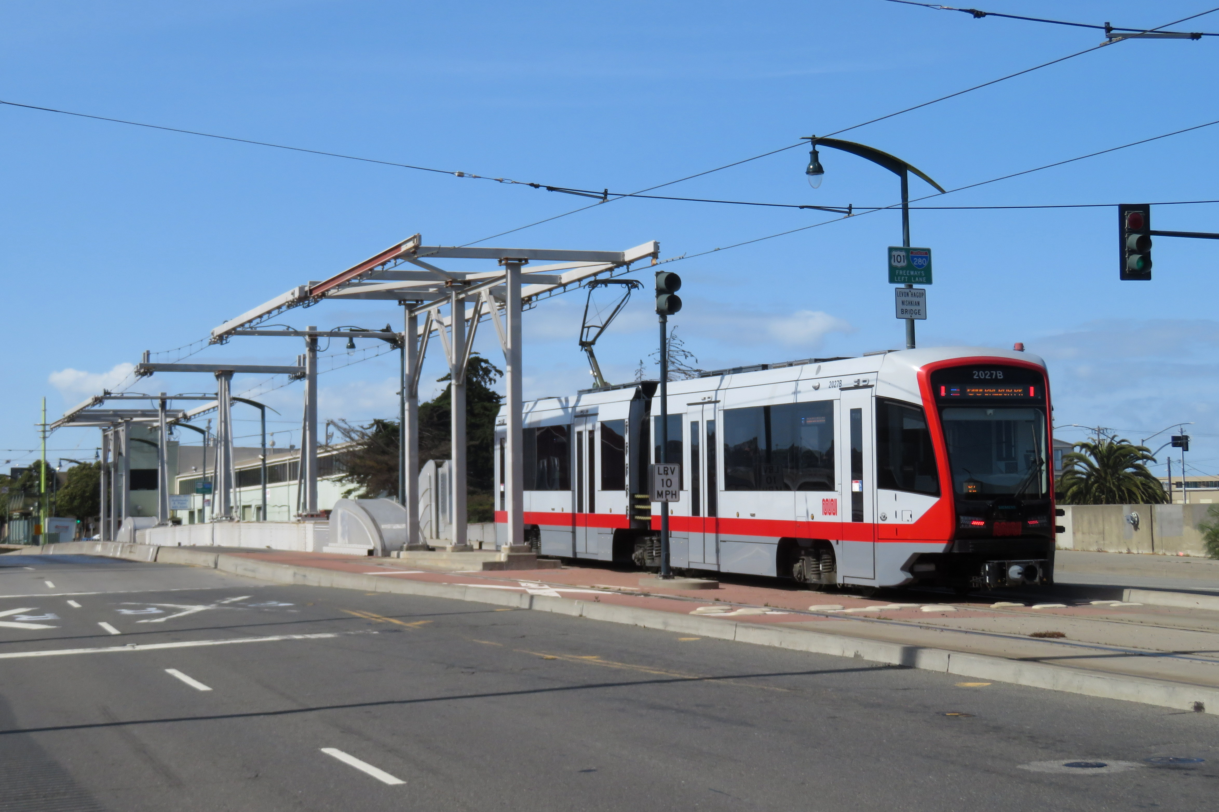 A northbound T Third Street train crossing the Third Street bridge over Islais Creek in May 2019